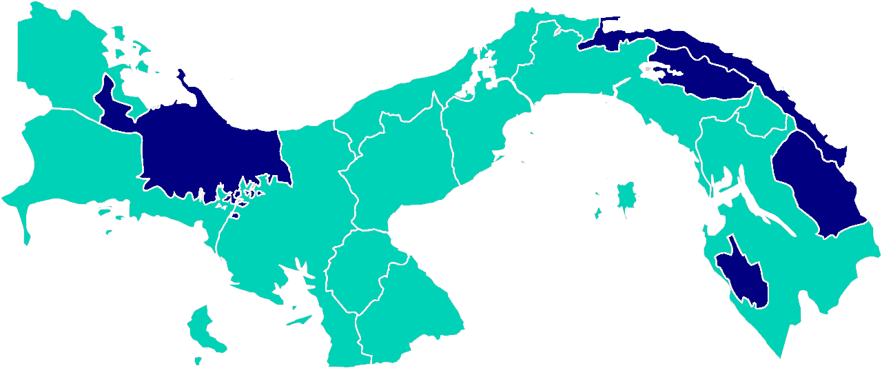 Map of the Elections